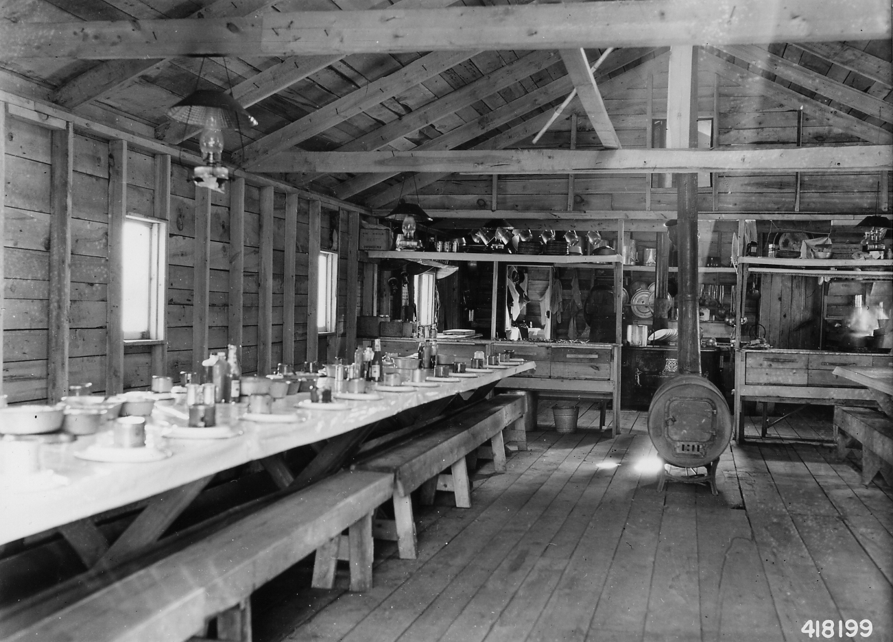 Scope and content: Original caption: Mess halls at logging camp.